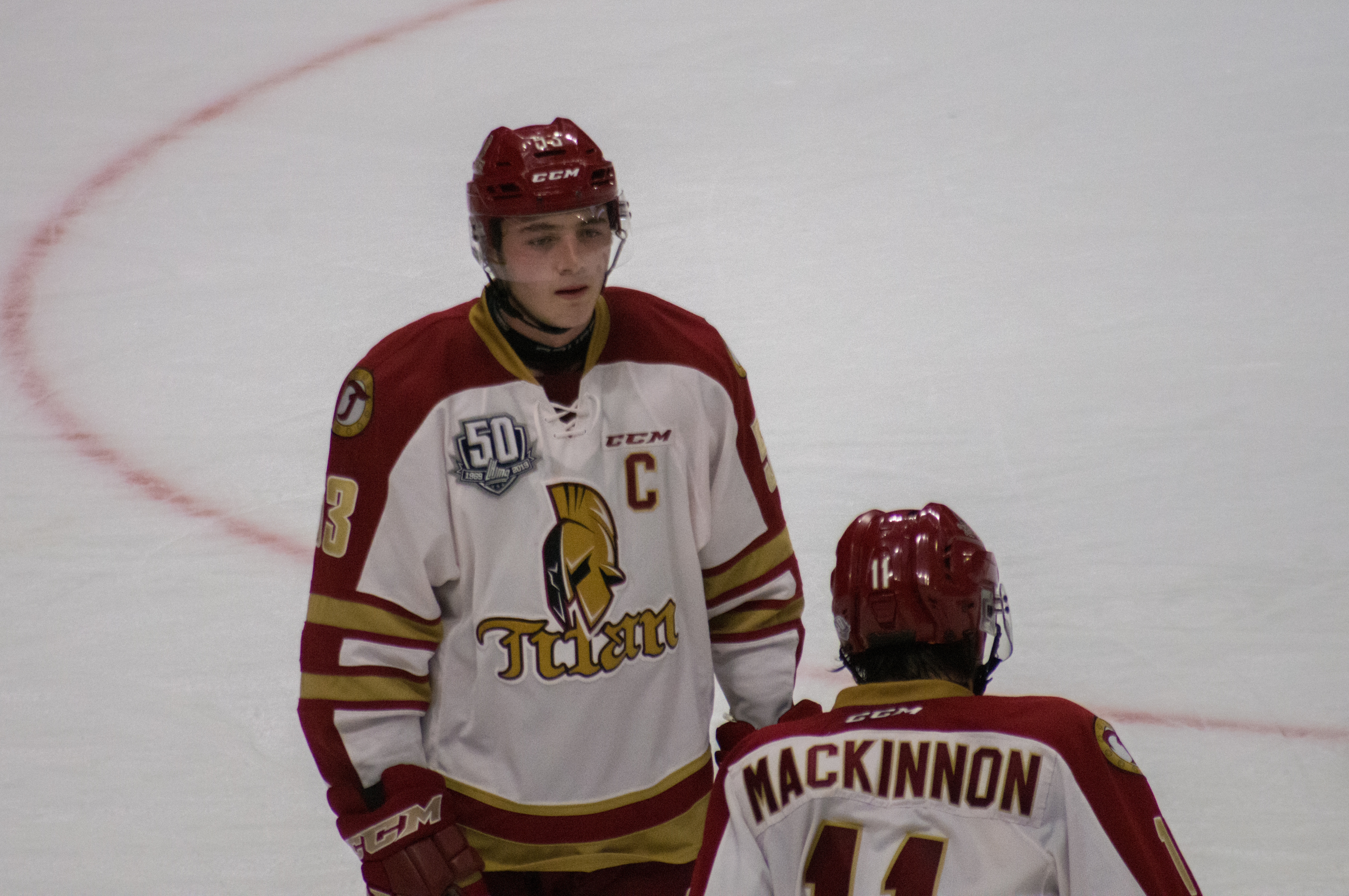 Quebec Remparts vs Acadie-Bathurst on Centre Vidéotron, Québec city